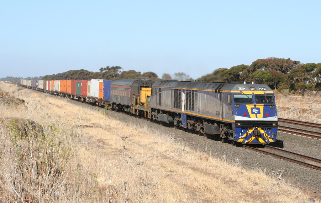 Chicago Freight Car Leasing Australia EL class locomotives EL57 and EL54 Adelaide bound at Manor Loop, Victoria, Australia